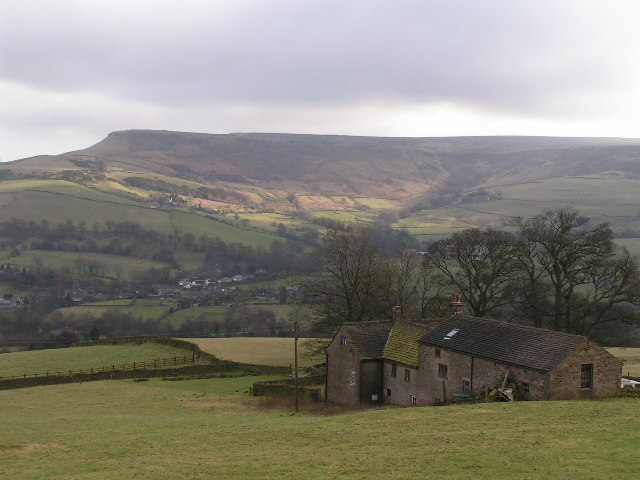 Combs Moss from Thorny Lee. Looking ESE from SK031785